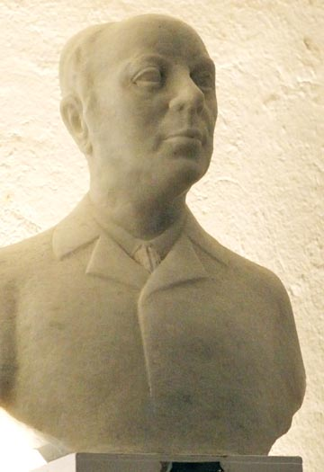 Photo of bust of Philippe de Rotschild taken at Chateau Mouton Rothschild by Ron Zimmerman, September 2006